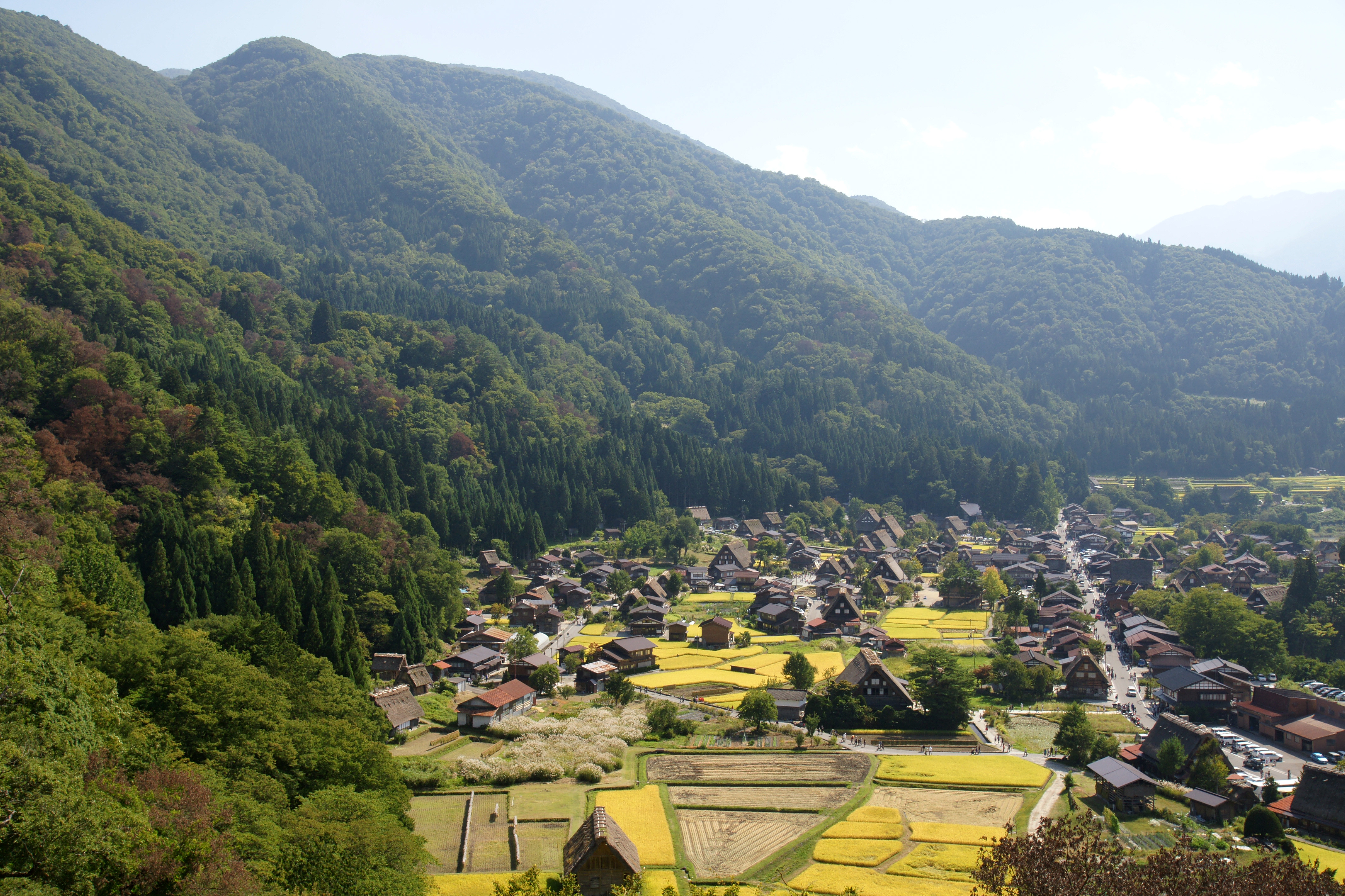 Shirakawa-go (Ogi) in Shirakawa, Gifu prefecture, Japan